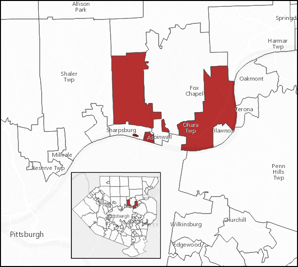 Map showing the five separate parts of O'Hara Township, including Sixmile Island in the Allegheny River. Source for Sixmile Island being in O'Hara Township is this USGS link. Click this link, and after the map loads, click the box for the "Minor Civil Division labels" overlay, zoom in on Sixmile Island, wait for the data to finish "Loading", position the cursor on the island and double-click. It should display the word "O'Hara" on the island. (Or, just an extreme zoom-in without clicking should reveal it also.) Also, one may view the Allegheny County GIS map and again do an extreme zoom-in, the map changes to an aerial photograph of the island. Click on the island to bring up a text box that states,"Municipality: O'HARA Owner:TOWNSHIP OF O'HARA".